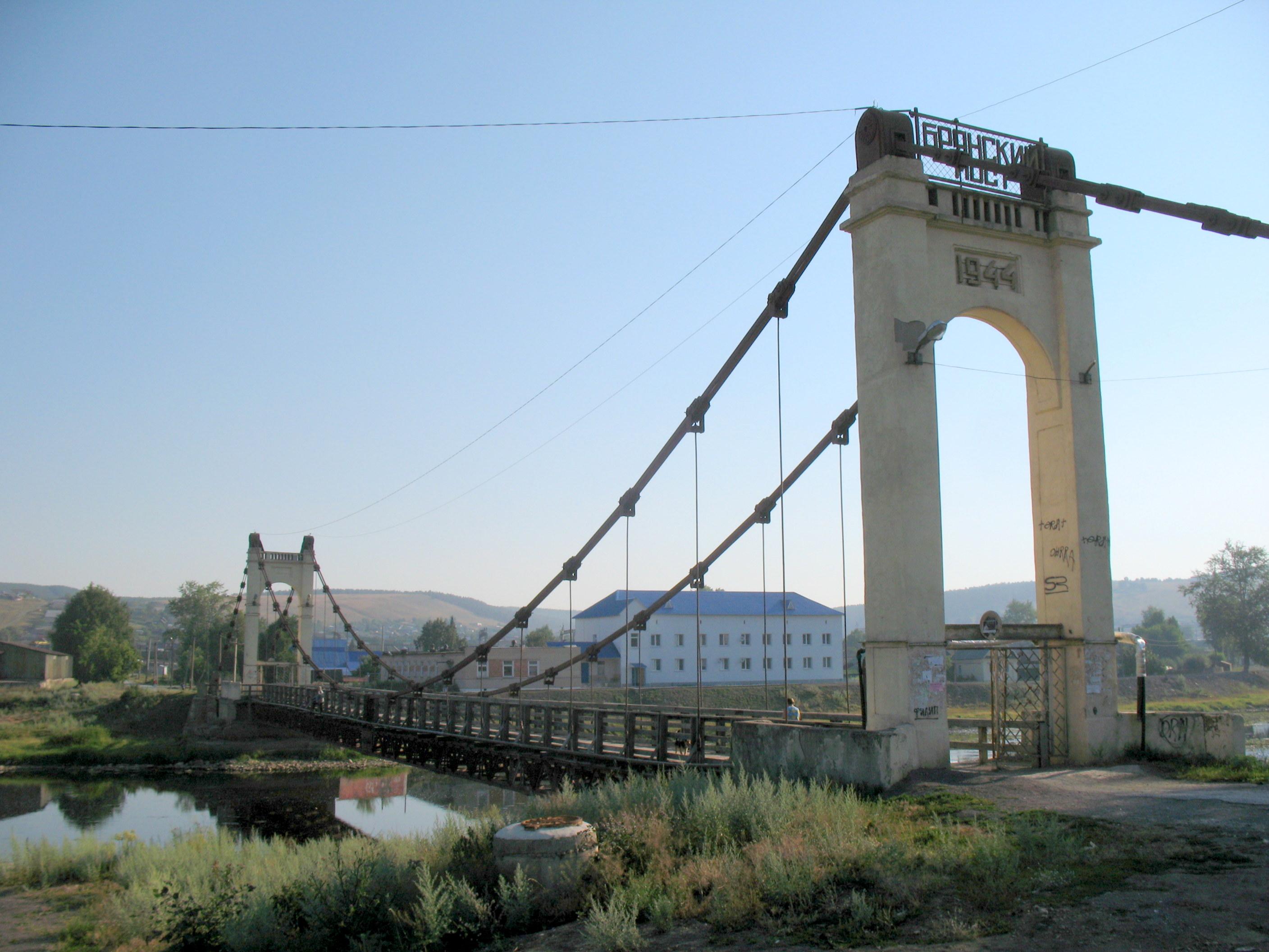 Ust-Katav. Bryansk bridge over Yuryuzan.